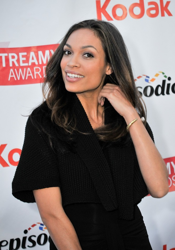 Rosario Dawson at the 2009 Streamy awards